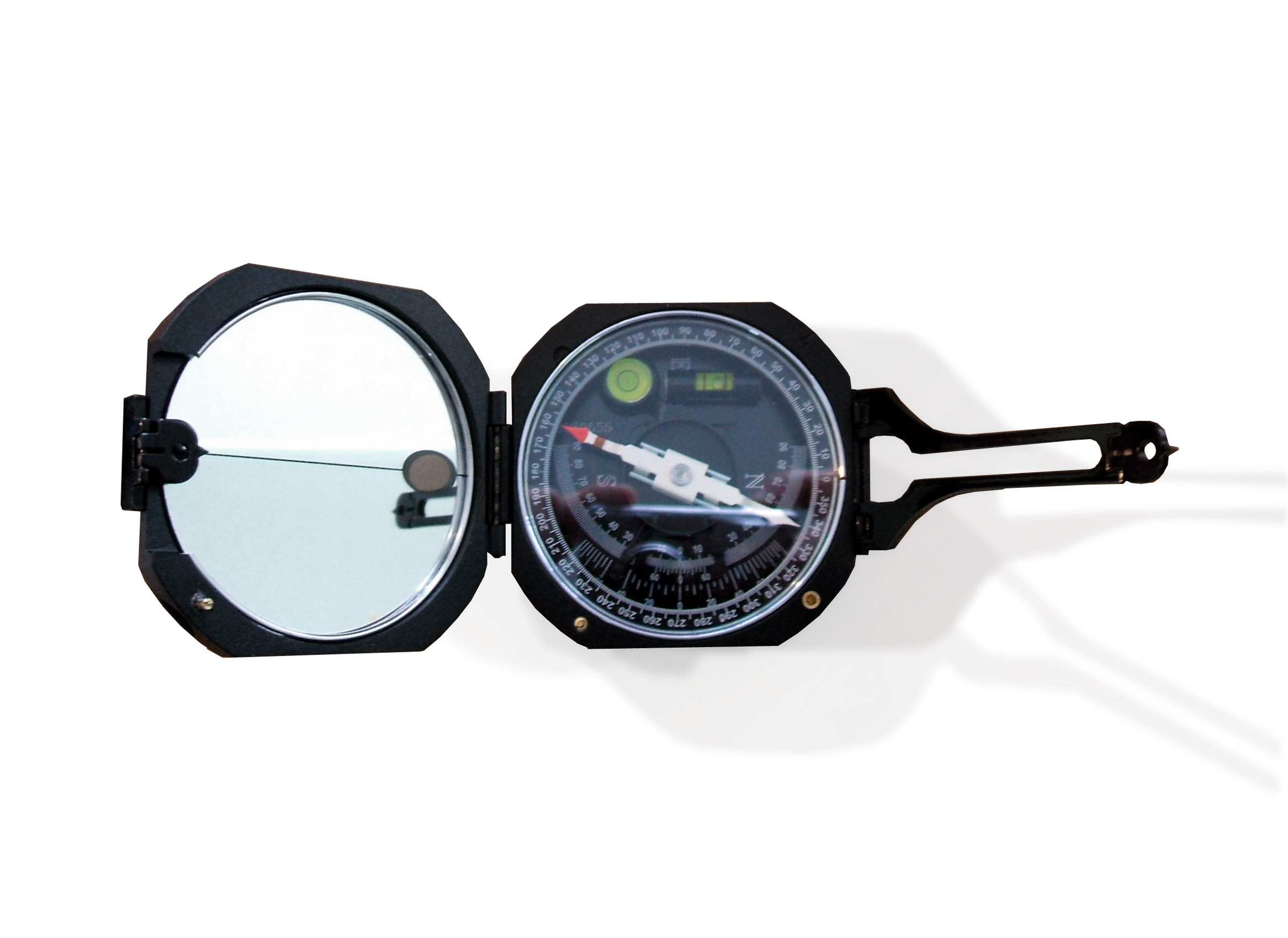 This is a digital enhanced picture of a Brunton Compass.